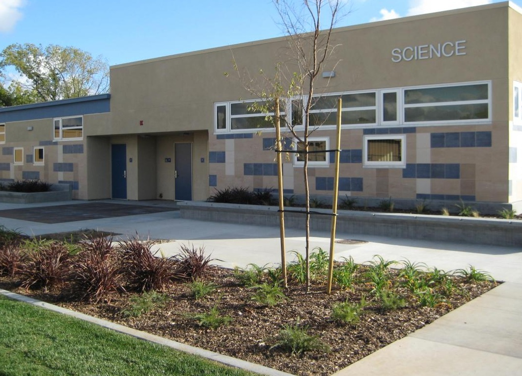 The new science building of El Cajon Valley High School